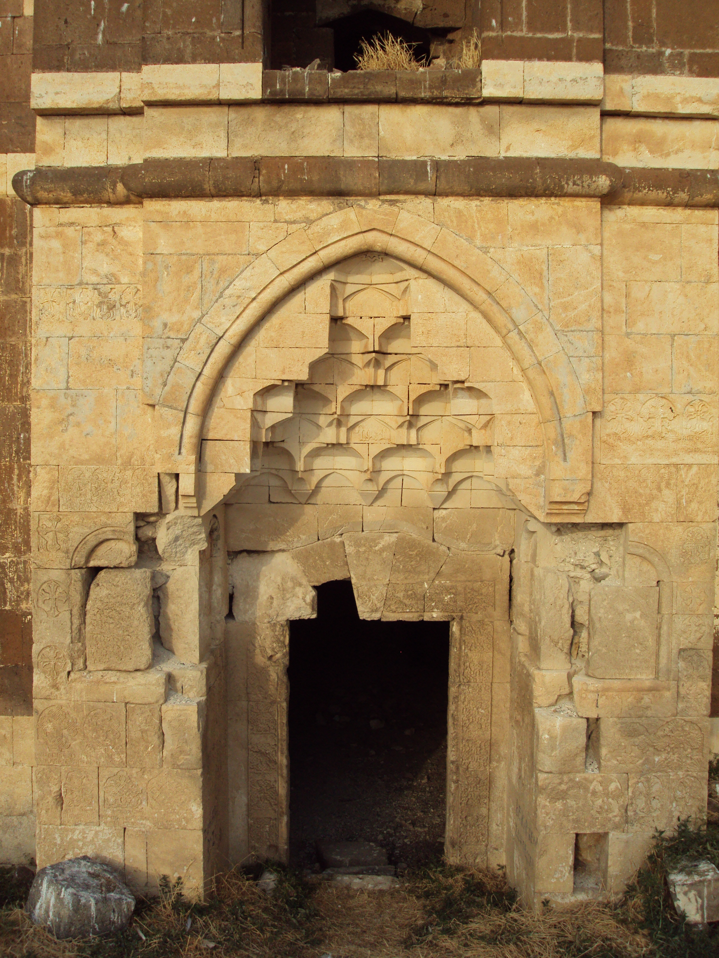 15th century Armenian monastery on the small island of Ktuts (Çarpanak) in Lake Van, Vaspurakan (present-day Turkey)